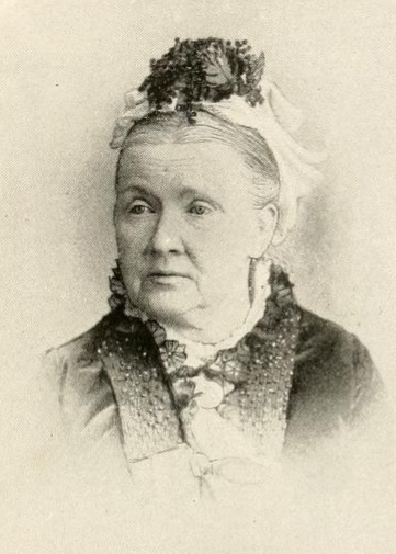 Photographic portrait of American writer and reformer Julia Ward Howe (1819-1910). From American Women: Fifteen Hundred Biographies with Over 1,400 Portraits, Frances E. Willard and Mary A. Livermore, editors. Mast, Crowell & Kirkpatrick, 1897 (revised edition from 1893), vol. 1, p. 397